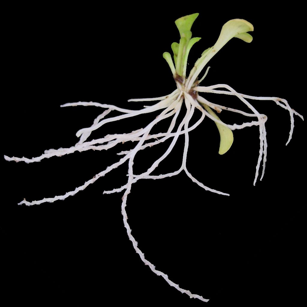 Description: Genlisea violacea unearthed to show subterranean traps. Image created by: Noah Elhardt